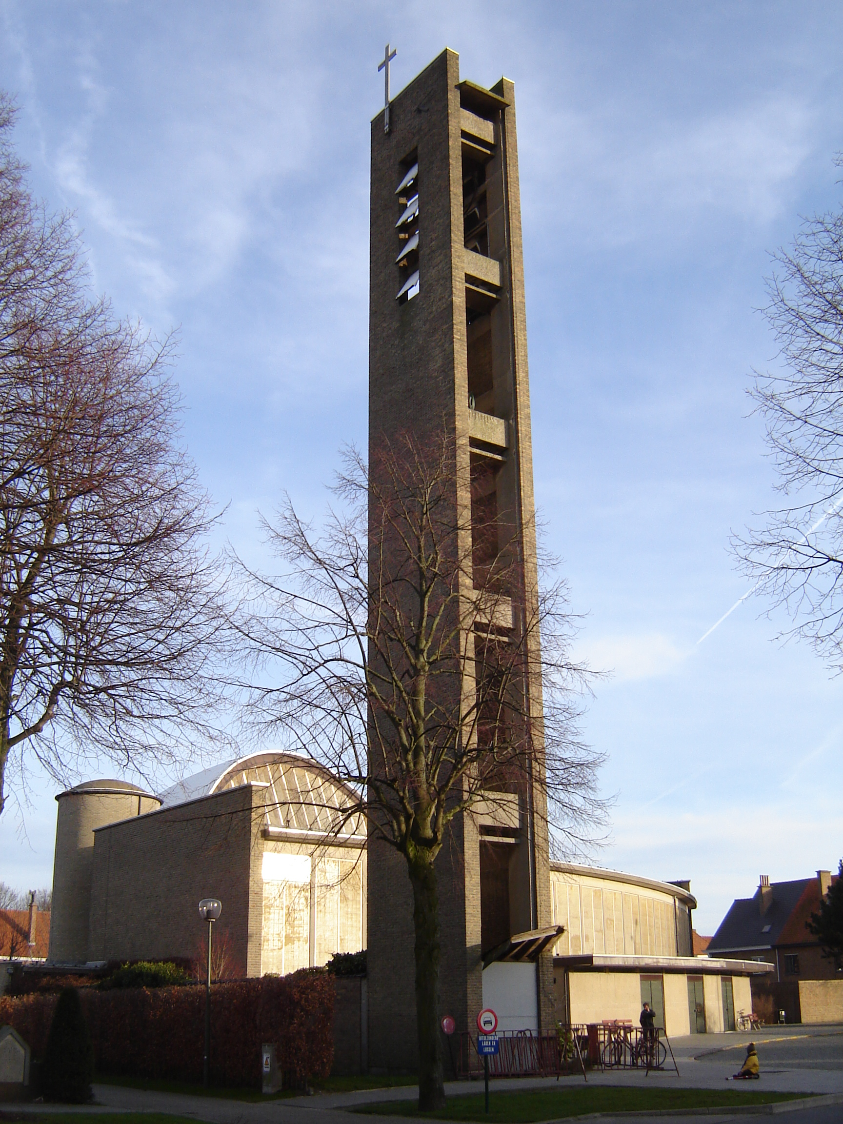 Church of Saint Paul in Sint-Pieters. Sint-Pieters, Brugge, West Flanders, Belgium.